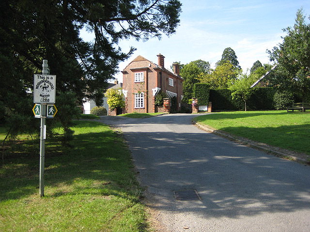 Badgeworth Court Care Centre Situated in an old red brick house built in 1829 in the Dutch Colonial style and former home of Colonel Selwyn Payne.